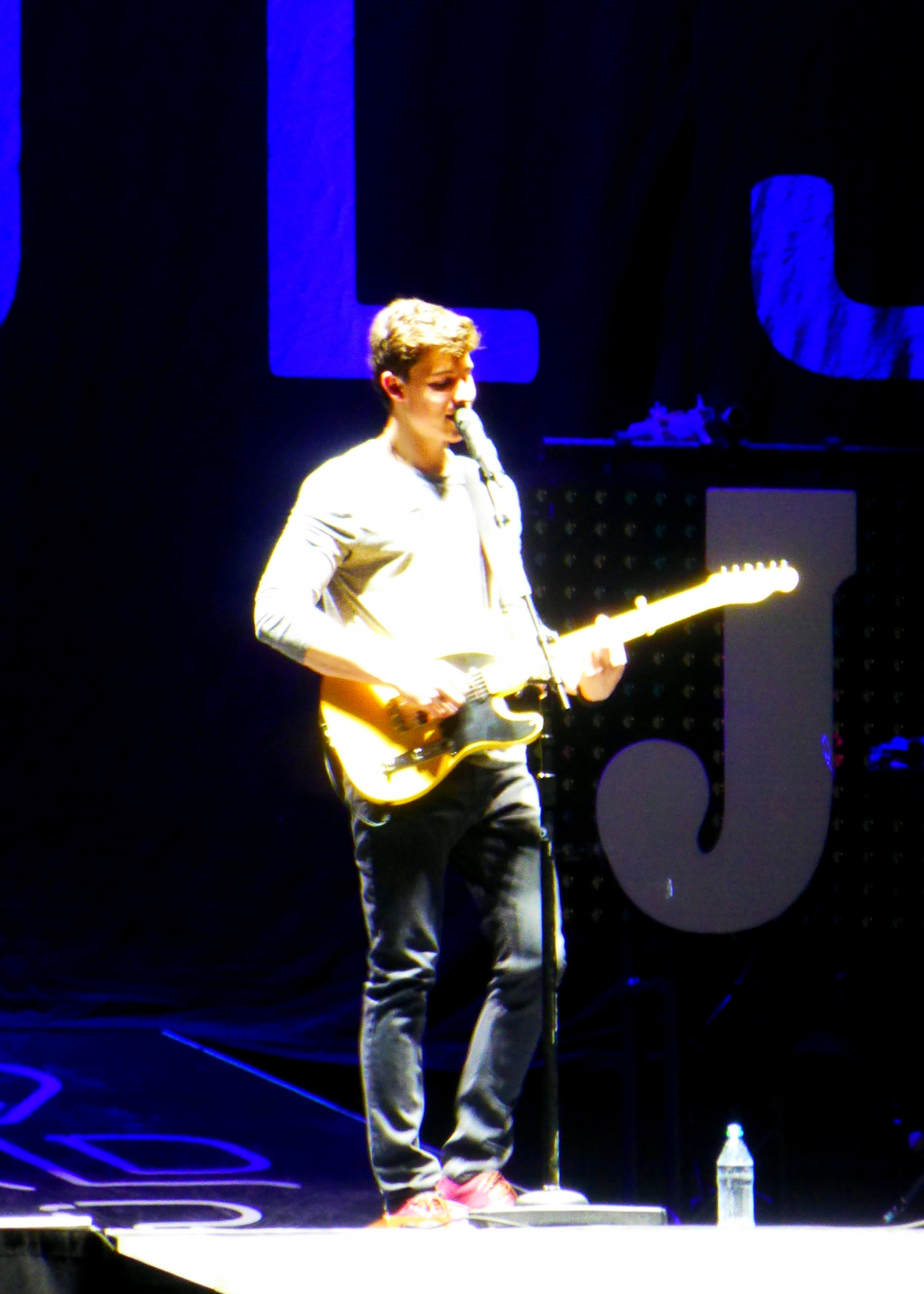 Shawn Mendes opening for Taylor Swift 1989 Tour at Ford Field in Detroit, 5/30/15